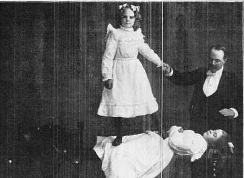 catalepsy